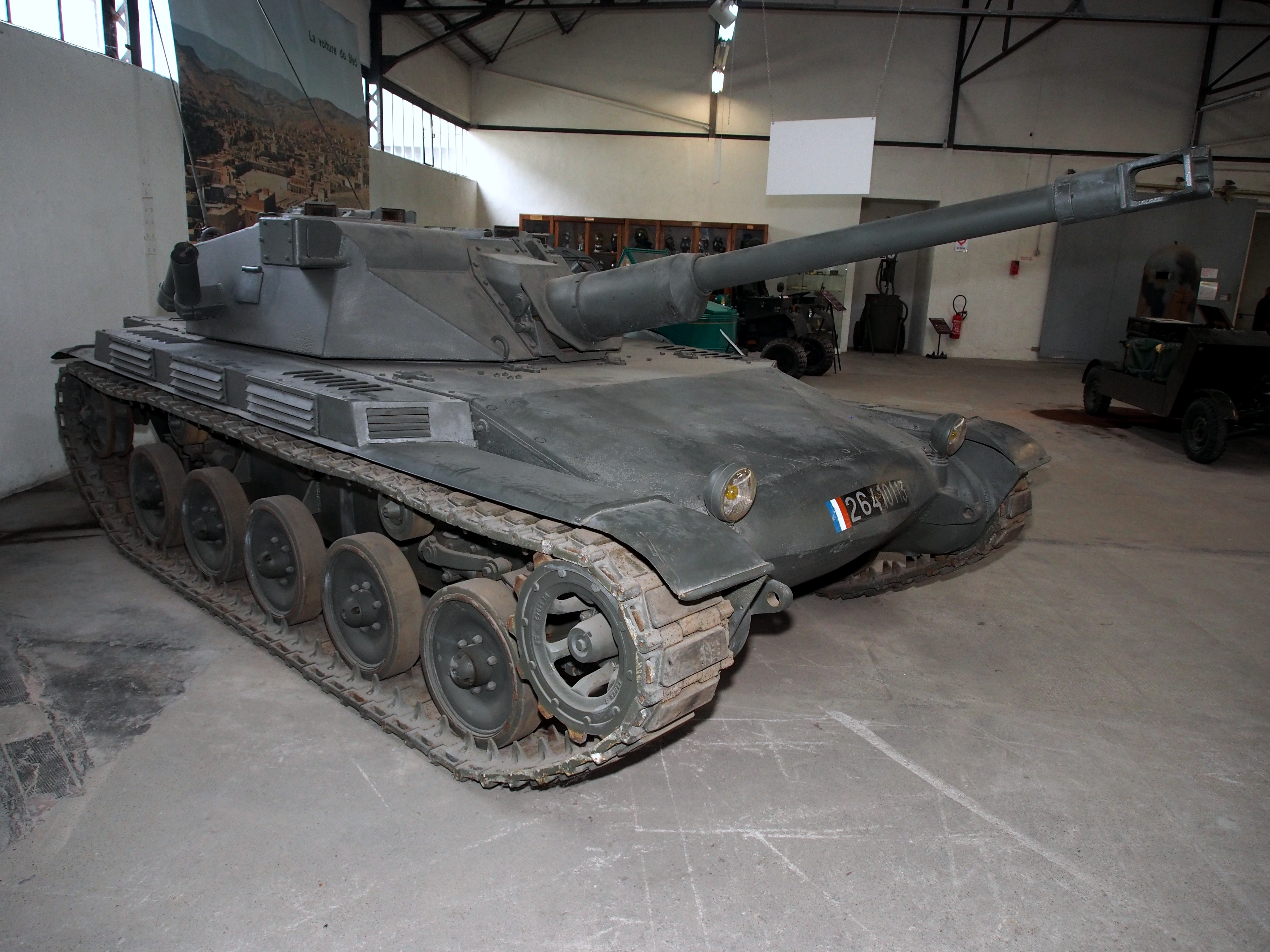 Photographed in the Musée des Blindés, France.